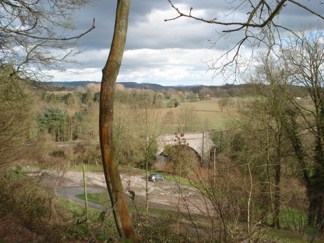 Railway bridge over the river Lugg The Railway pub car park in the foreground. The Malvern Hills in the distance on the horizon.